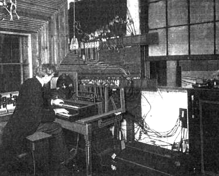 Telharmonium-01_cropped